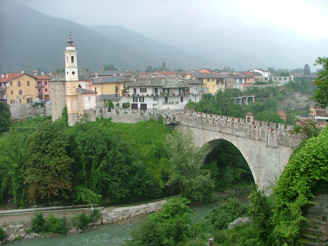 A view of Dronero, a town in the province of Cuneo